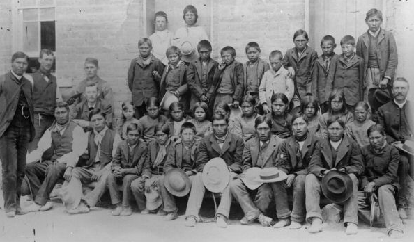 Rev. Sherman Coolidge, Wind River Boarding School, Wyoming, 1883-1885. Standing at left is the Reverend Sherman Coolidge, an Arapaho. Seated among the students at the far right is the Reverend John Roberts, who first came to Wind River in 1883. Other information No.